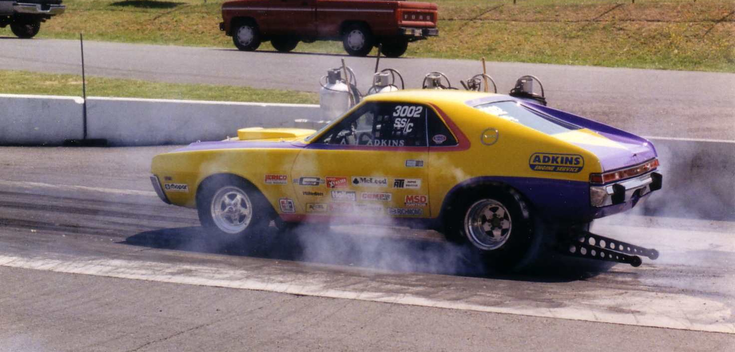 (1968 or 1969) American Motors 2-seat AMX (sponsored by Adkins) doing a burnout before a dragrace at a strip in Maryland.